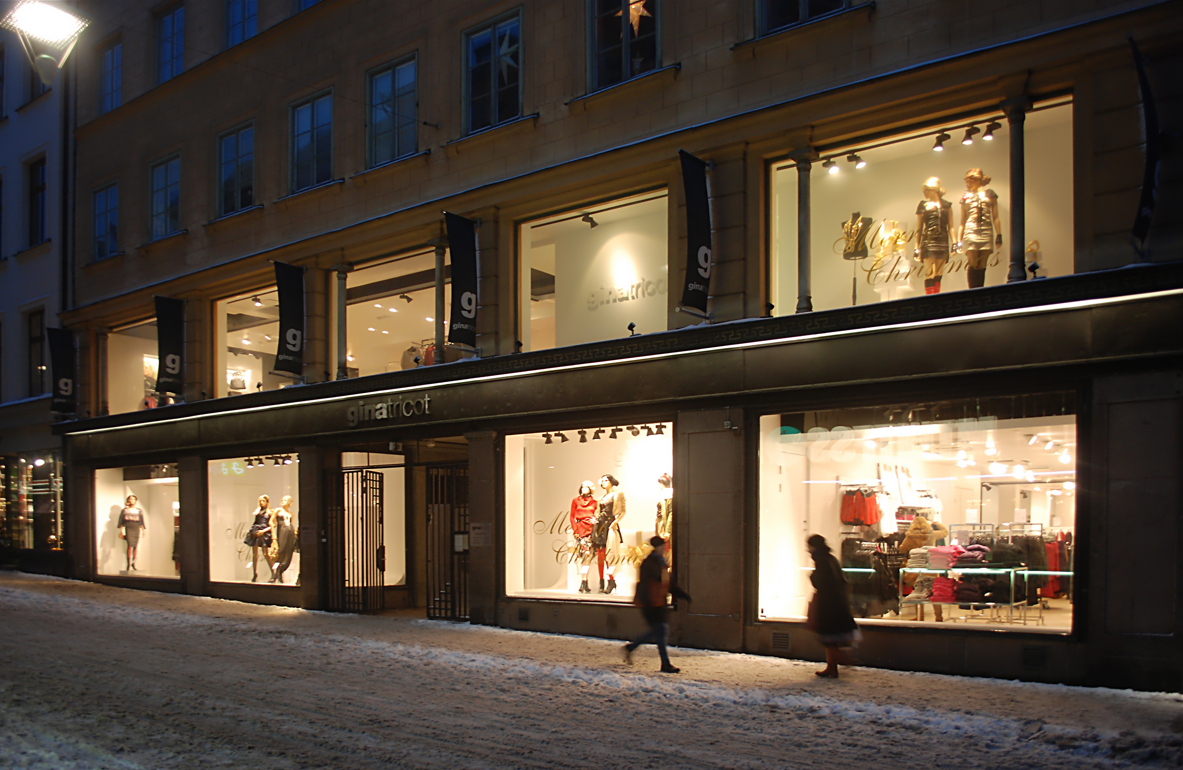 Gina Tricot shop at Götgatsbacken, Södermalm (Stockholm).